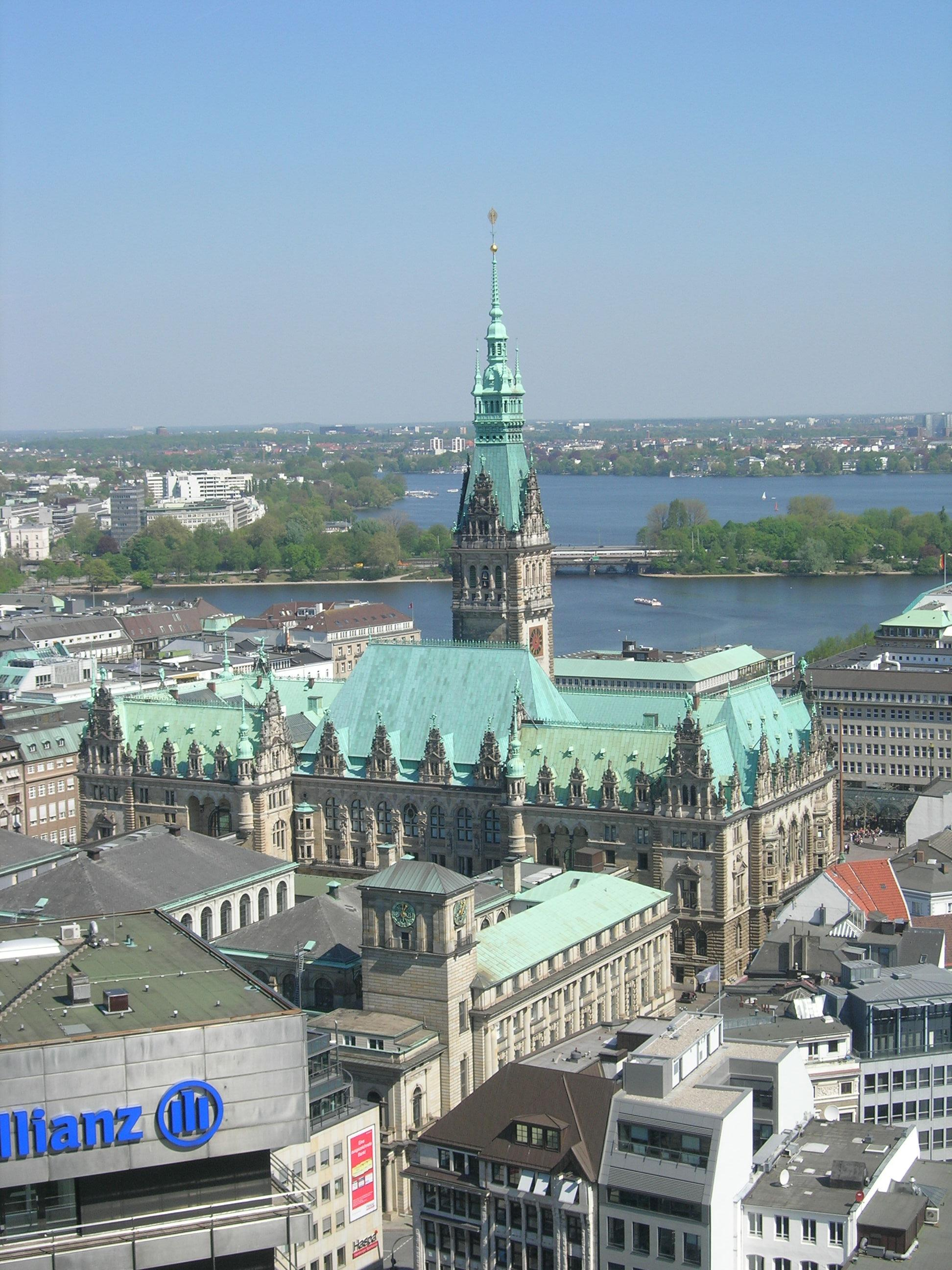 cityscape of Hamburg, Germany, Hamburg Rathaus from the tower of St Nicholas Church This is a photograph of an architectural monument.